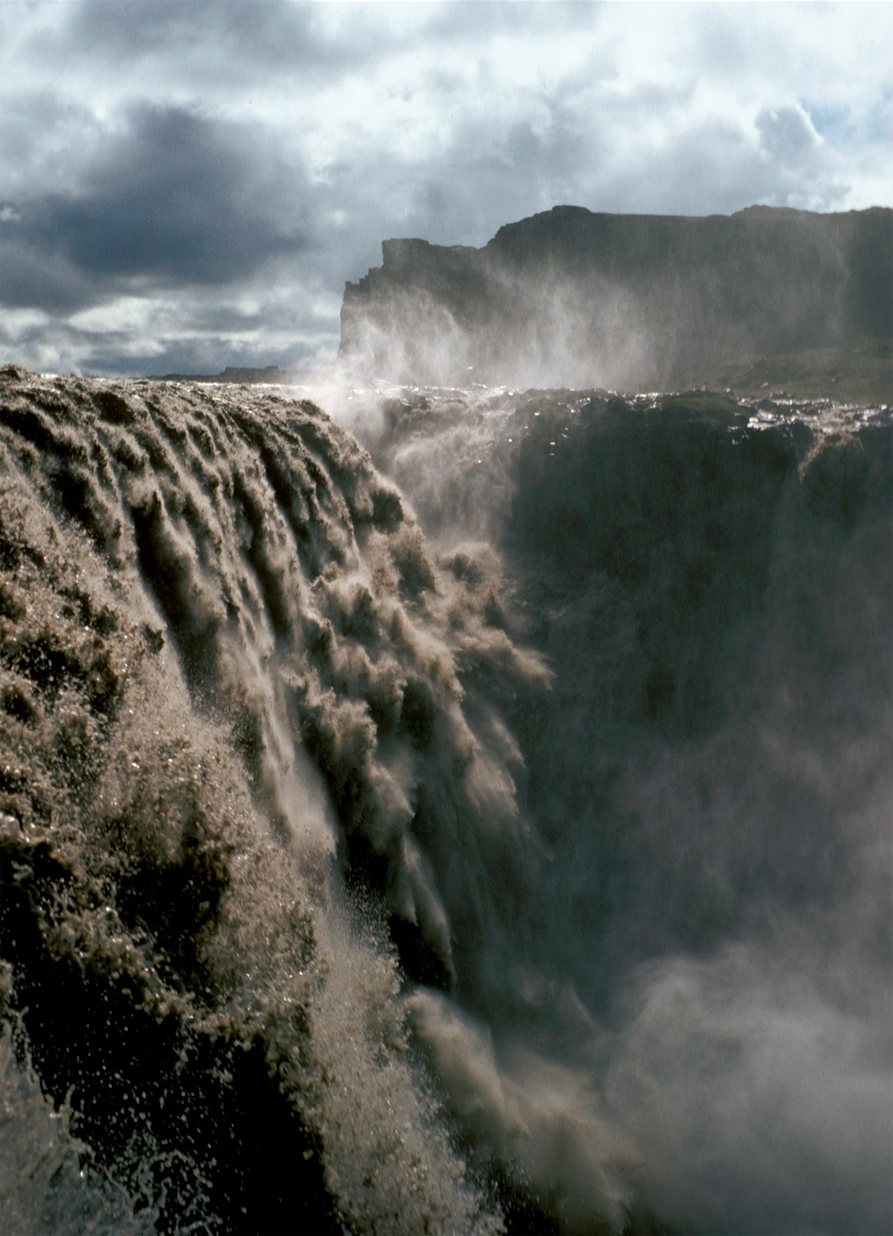 The Dettifoss in Iceland on 31 Jul 1972. Picture taken and uploaded by Roger McLassus.